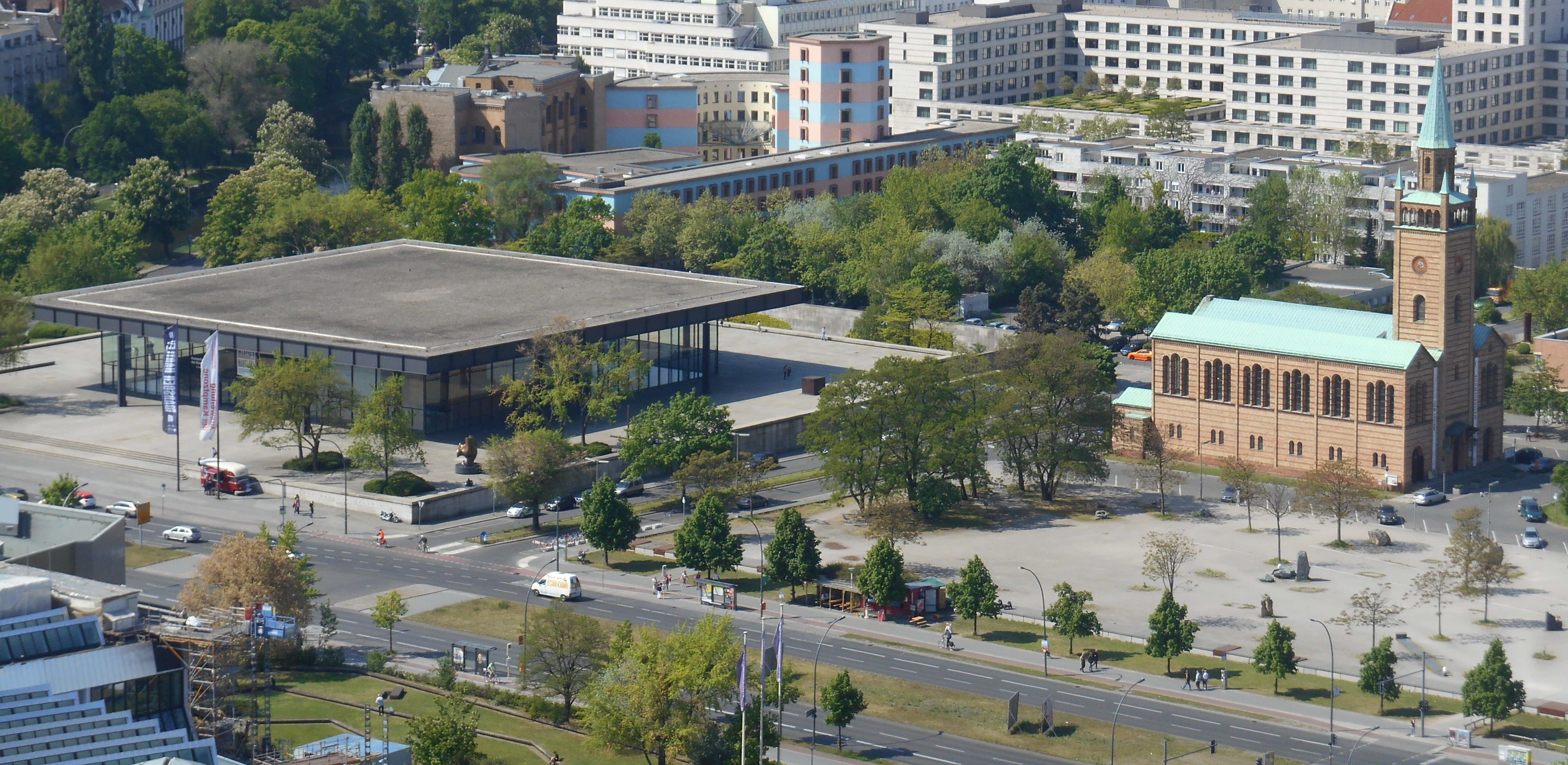 View to Neue Nationalgalerie and St. Matthäuskirche, Berlin-Tiergarten, Berlin (Mitte), Germany